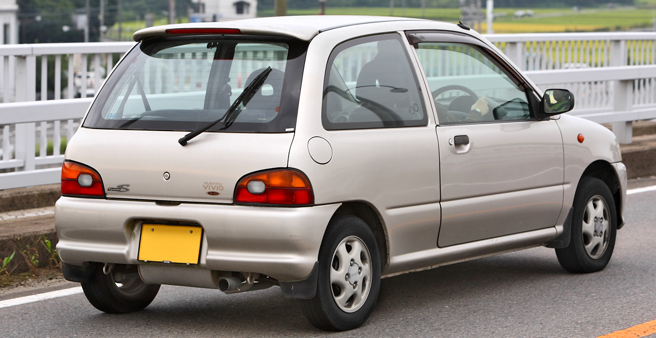 Subaru Vivio M300 Type-S